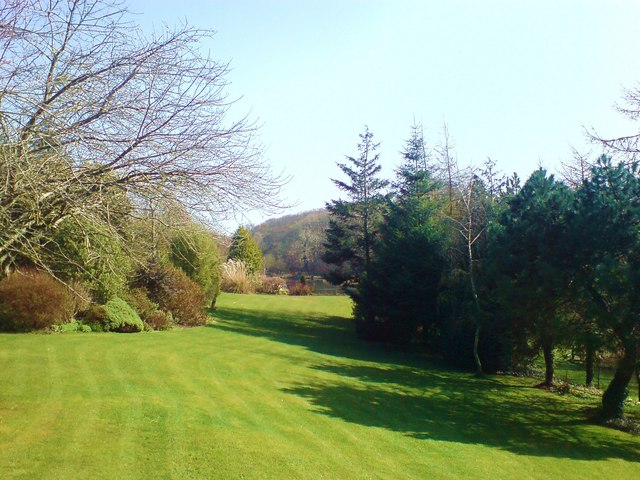 Gardens and lake at Hilton Court